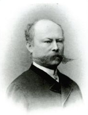 Portrait of Ludwig Munthe